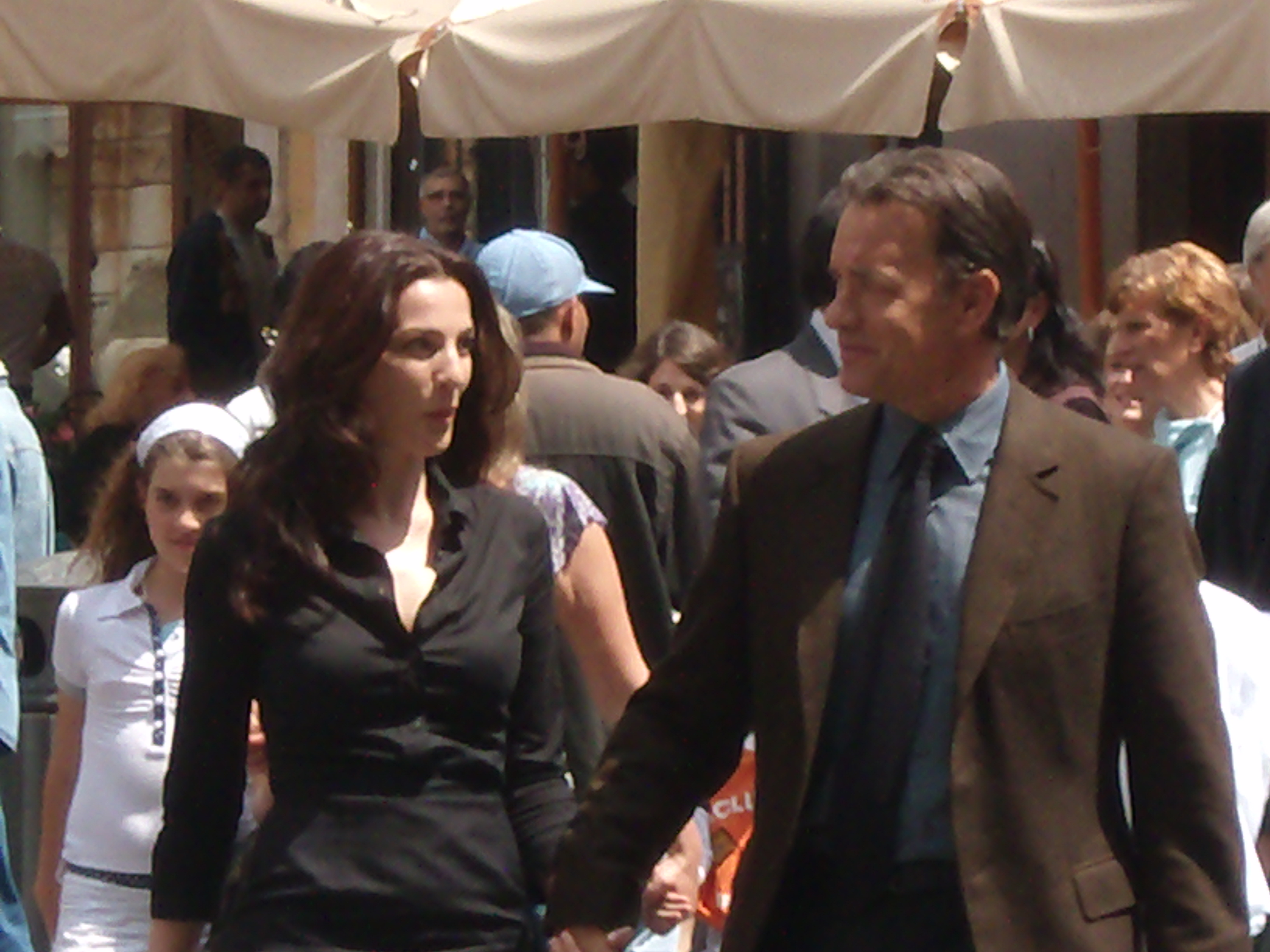 Tom Hanks and Ayelet Zurer outside of the Pantheon in Rome during production.